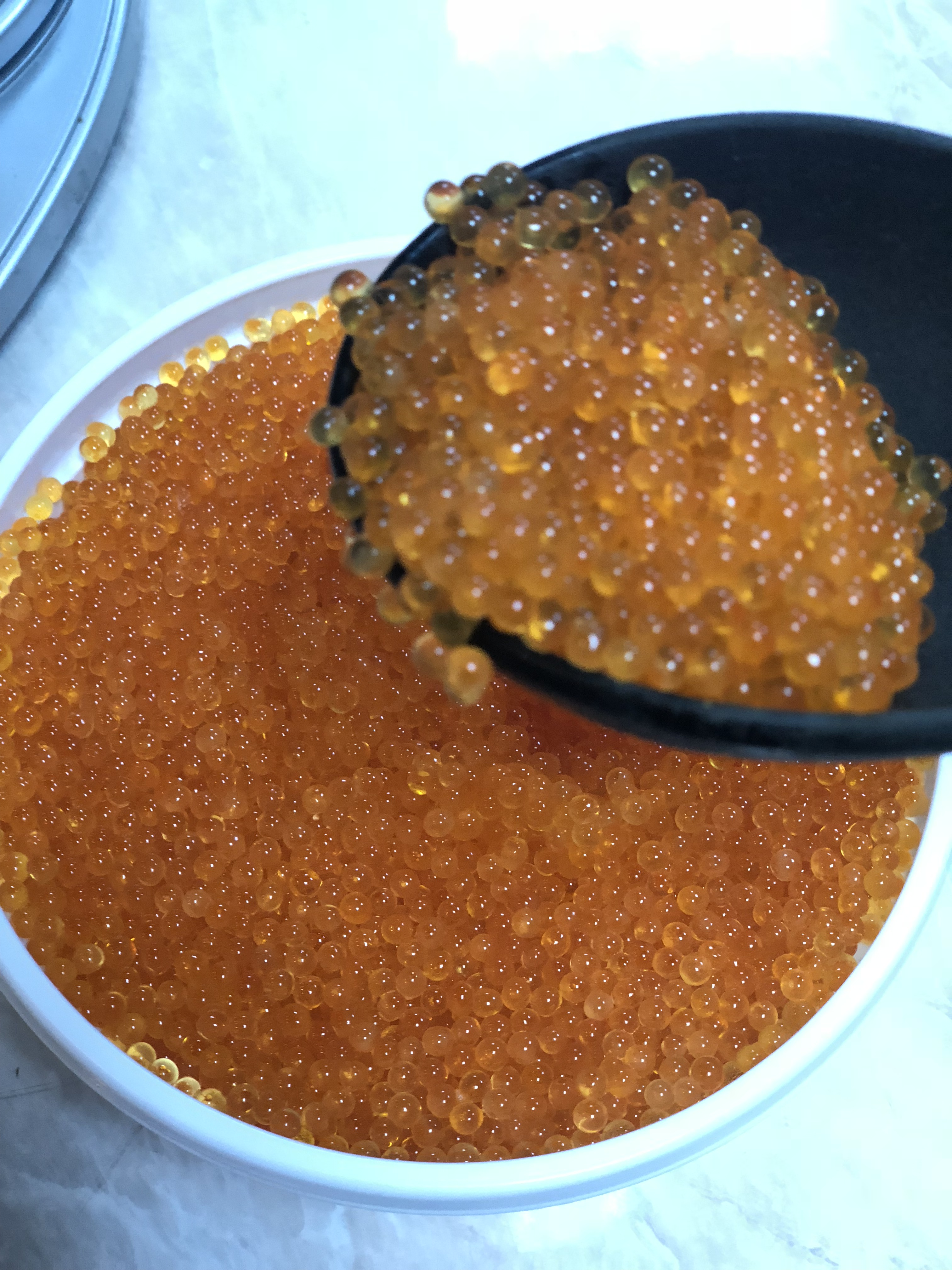 Rainbow trout caviar.